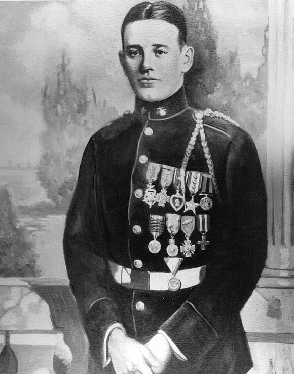 Photo #: NH 82738 Private John J. Kelly, USMC Portrait painting showing Kelly with medals and full dress uniform. Kelly was awarded the Medal of Honor for "conspicuous gallantry and intrepidity" during the Battle of Blanc Mont Ridge, France, on 3 October 1918. Note: The Army Medal of Honor is on the left in the top row of medals. Immediately to the right is the Navy Medal of Honor, in the "Tiffany Cross" pattern. Courtesy of Edward F. Murphy, 1974. U.S. Naval Historical Center Photograph.